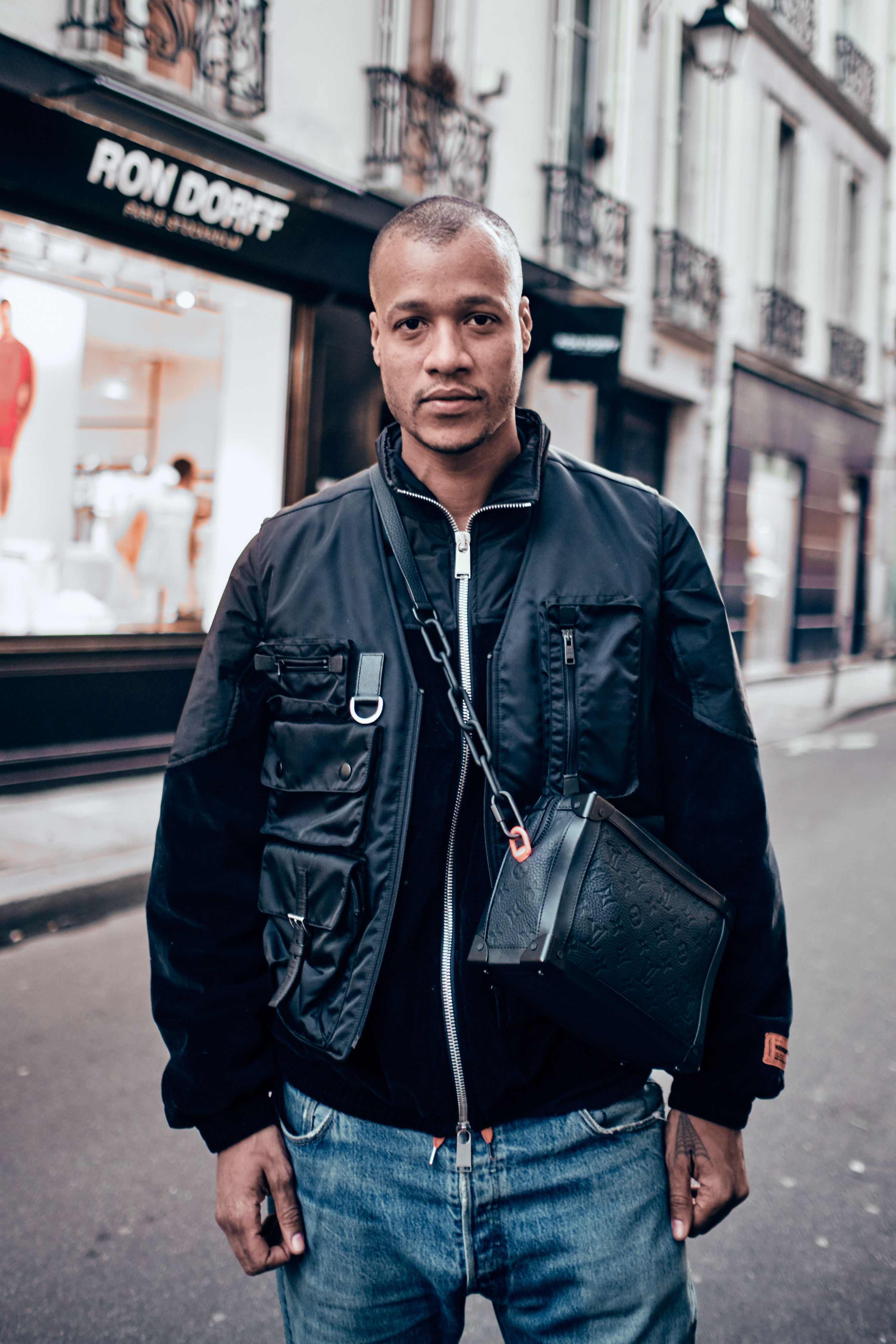 Heron Preston at Paris Fashion Week Autumn/Winter 2019